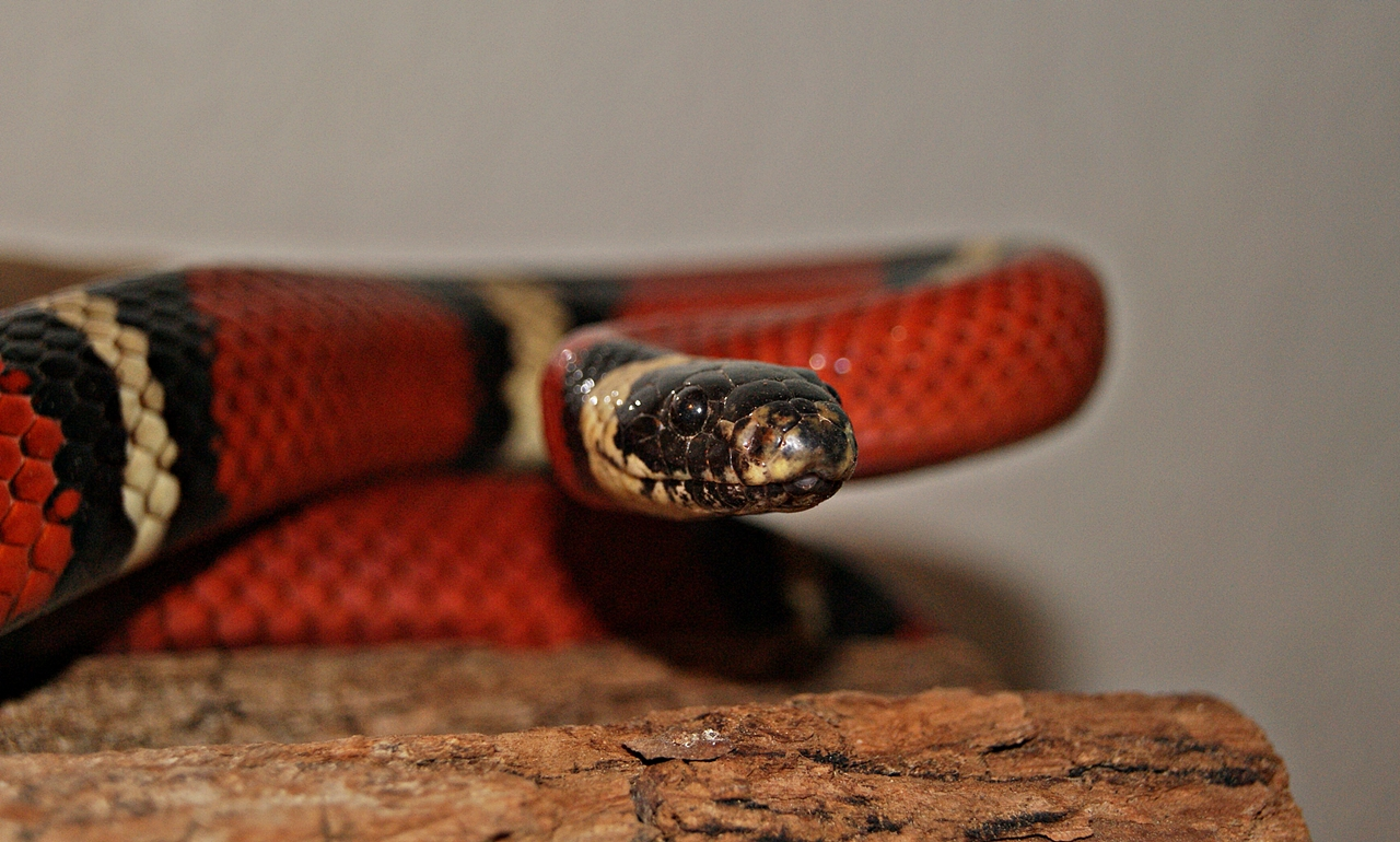 Lampropeltis triangulum sinaloae